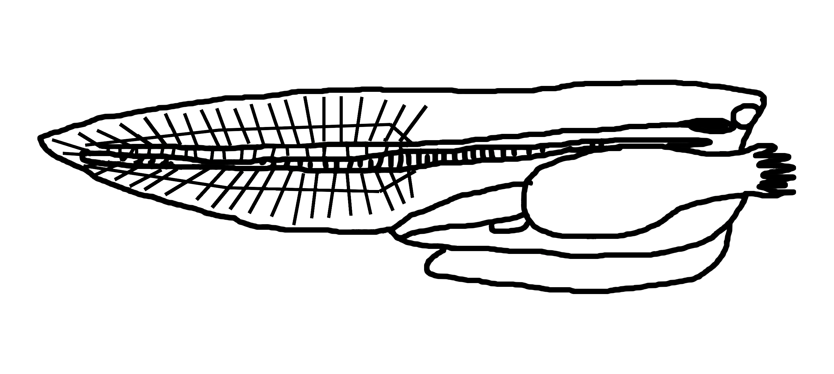 Schematic theoretical "model" of a chordate; sharing all important common features: notochord, neural tube, segmentation on the postanal tail, ...